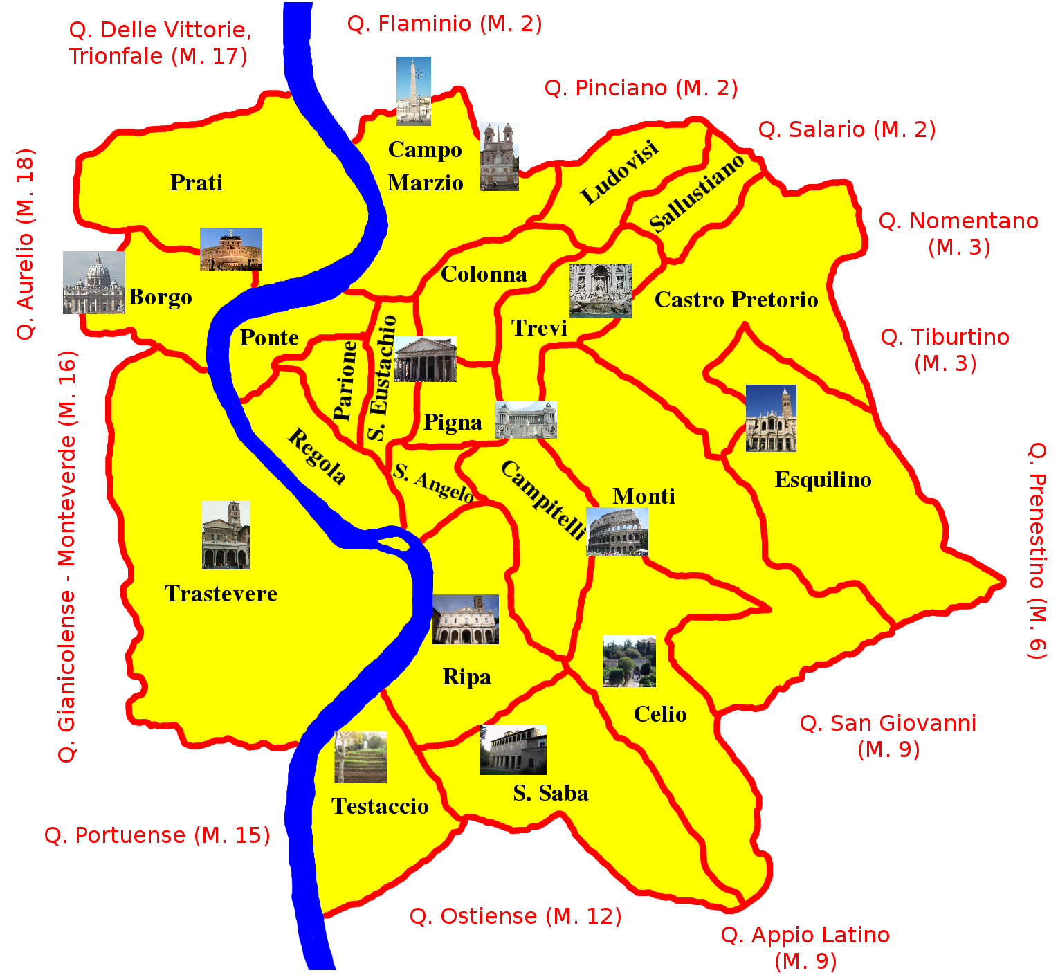 Map of the centre of Rome showing the political division in rioni and the main monuments in it.